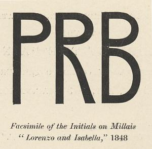 Inituials Pre-Raphaelite Brotherhood